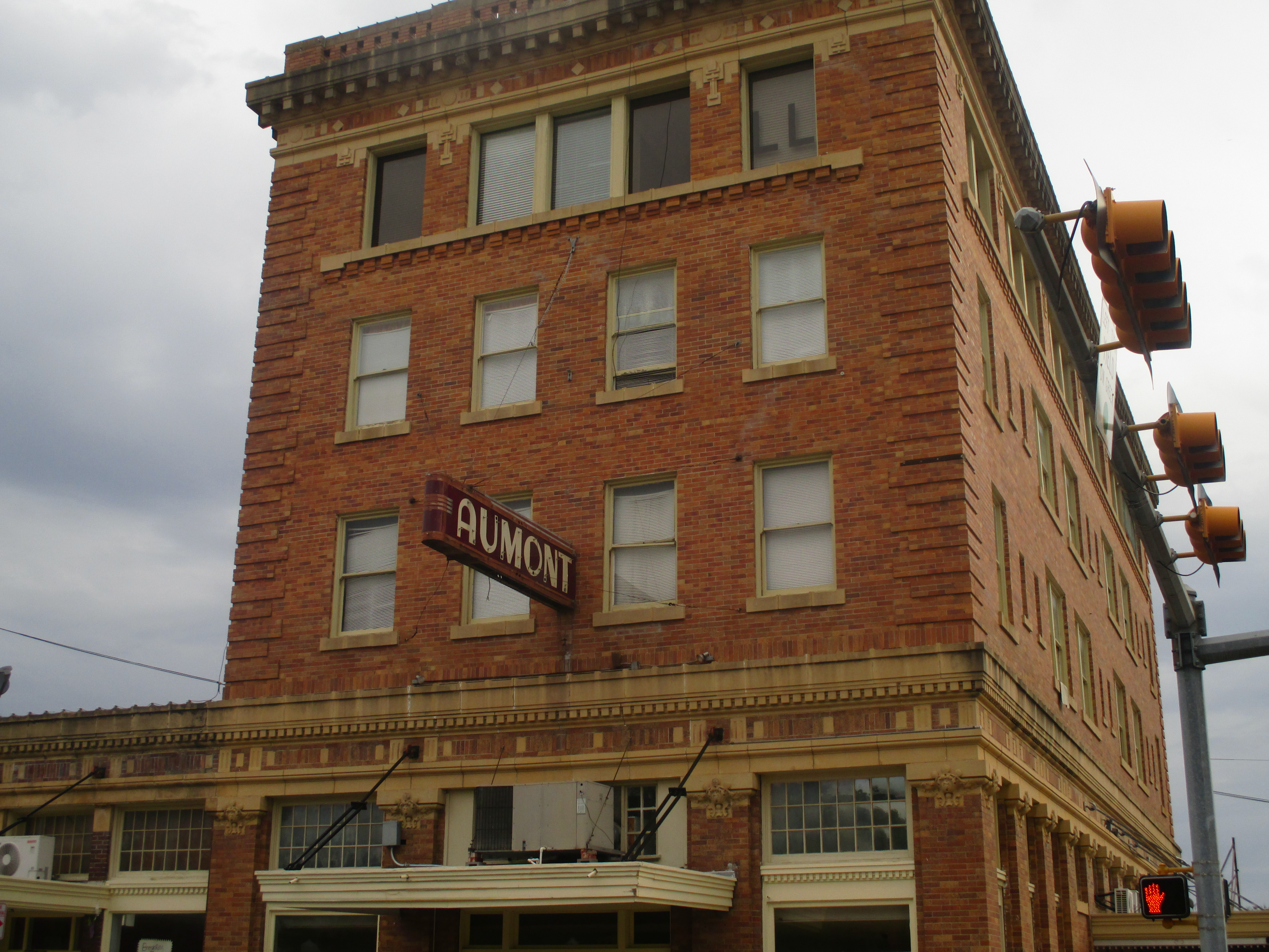 I took photo with Canon camera of Aumont Hotel in Seguin, TX.